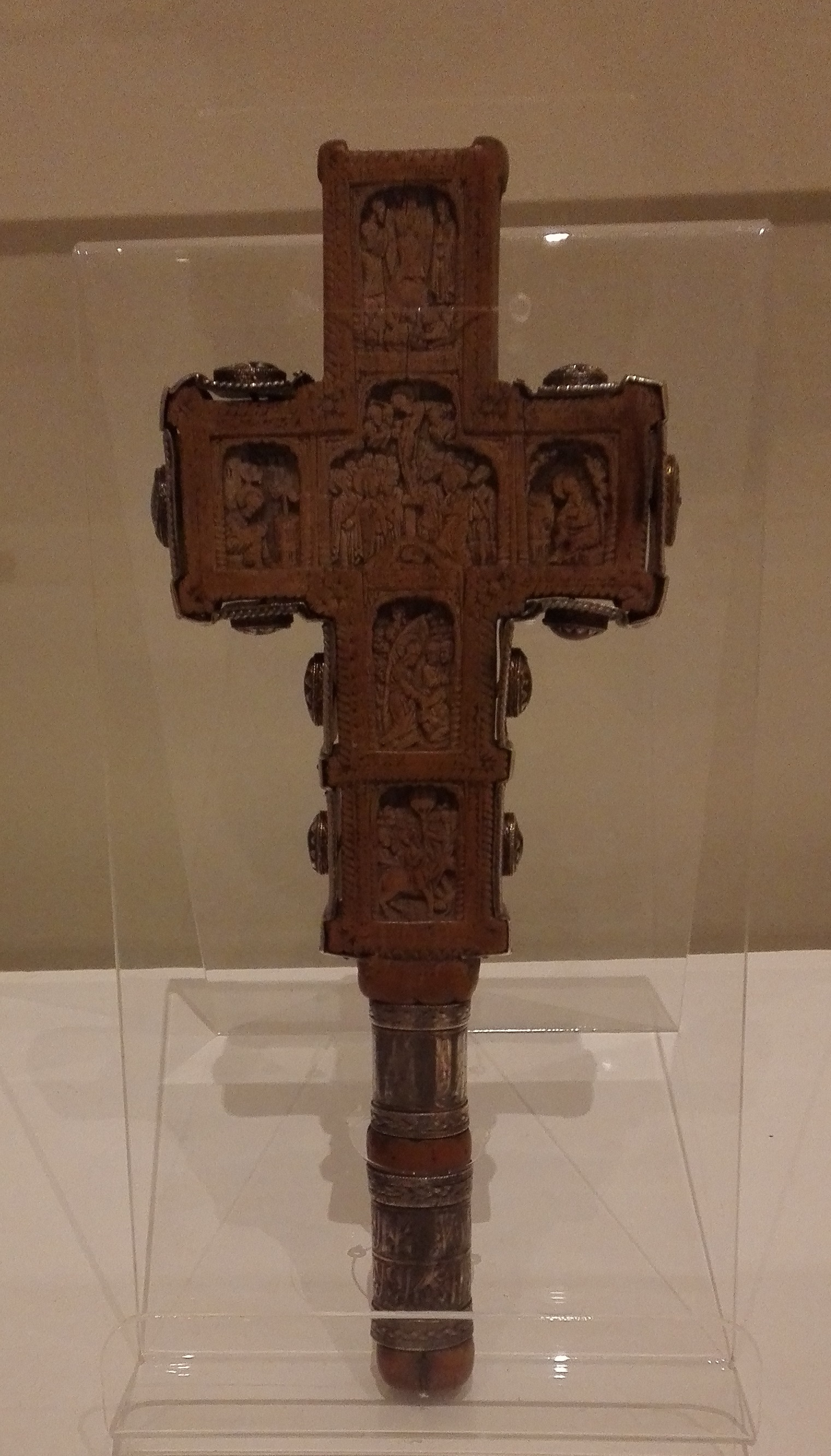 Benediction cross of Metropolitan Nikanor, from the Church of the Ascension in the village of Smira, near Vitina, Kosovo, 1551. National museum in Belgrade